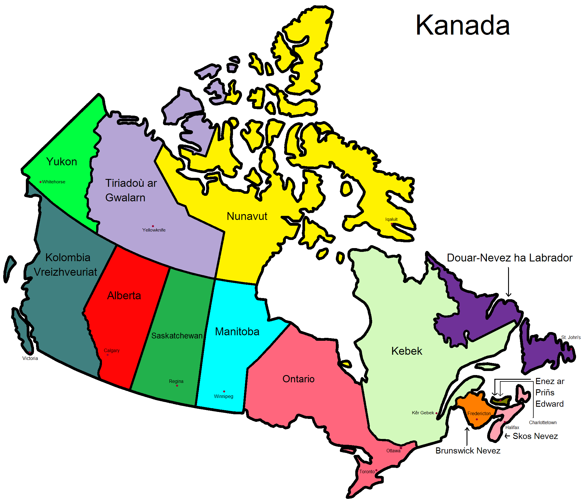 a map of canada in Breton